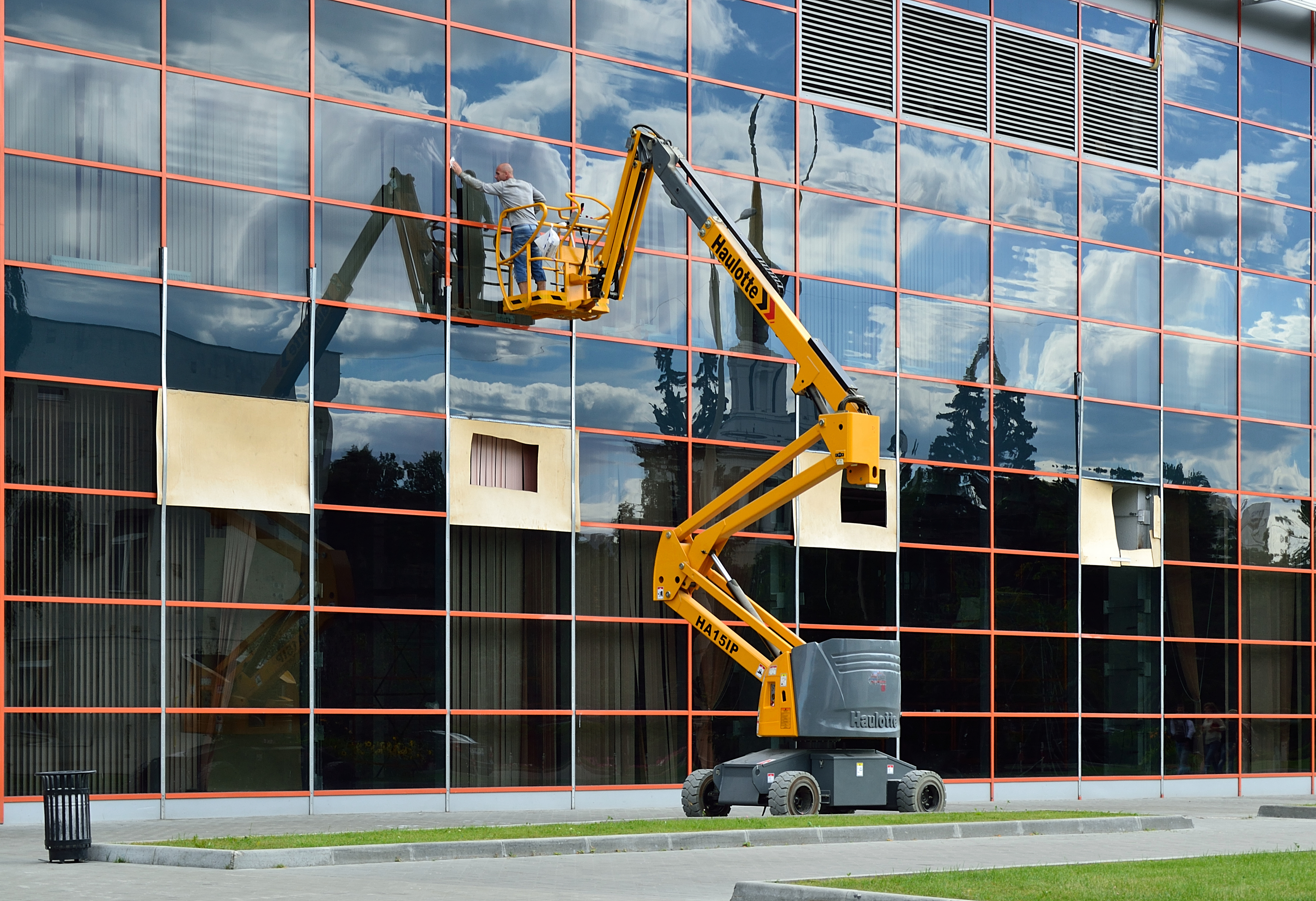 Moscow. VDNKh (the Exhibition of Achievements of the People's Economy). A window cleaner using a Haulotte HA15IP articulated boom lift (Haulotte Group, France) at work. The photo was taken at Pavilion No. 75. A photo from the user collection Machinery.